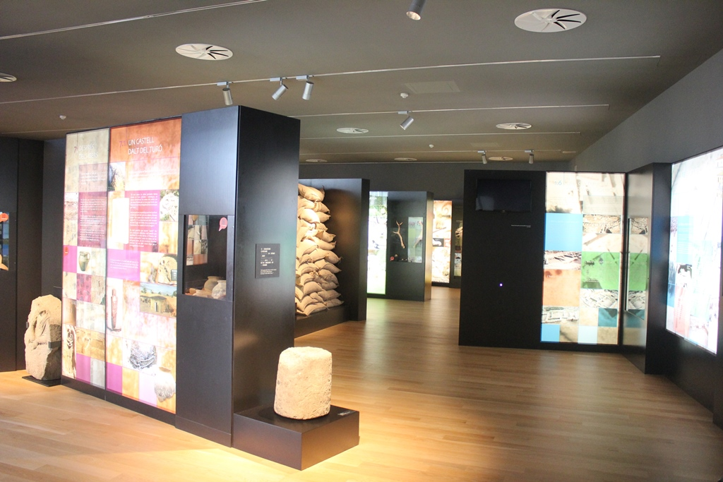 Espai d'interpretació del Museu Ibèric de ca n'Oliver